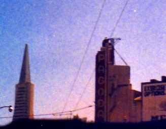 The Pagoda Palace theater vertical sign (right) and the Transamerica Pyramid seen from Columbus Avenue in North Beach, San Francisco.